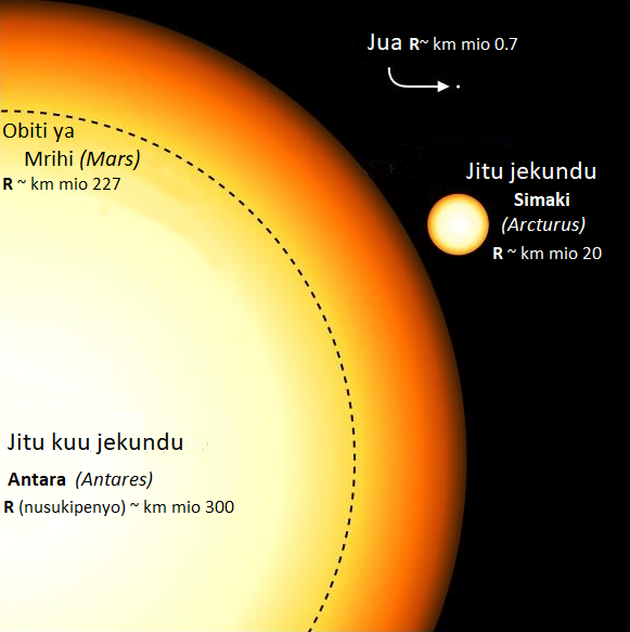 Comparison between the red supergiant Antares and the Sun, shown as the tiny dot toward the upper right. The black circle is the size of the orbit of Mars. Arcturus is also included in the picture for size comparison Kiswahili: Ulinganifu wa ukubwa baina ya nyota jitu kuu Antara, nyota jitu Simaki na Jua letu, pamoja na upana wa obiti ya Mirihi